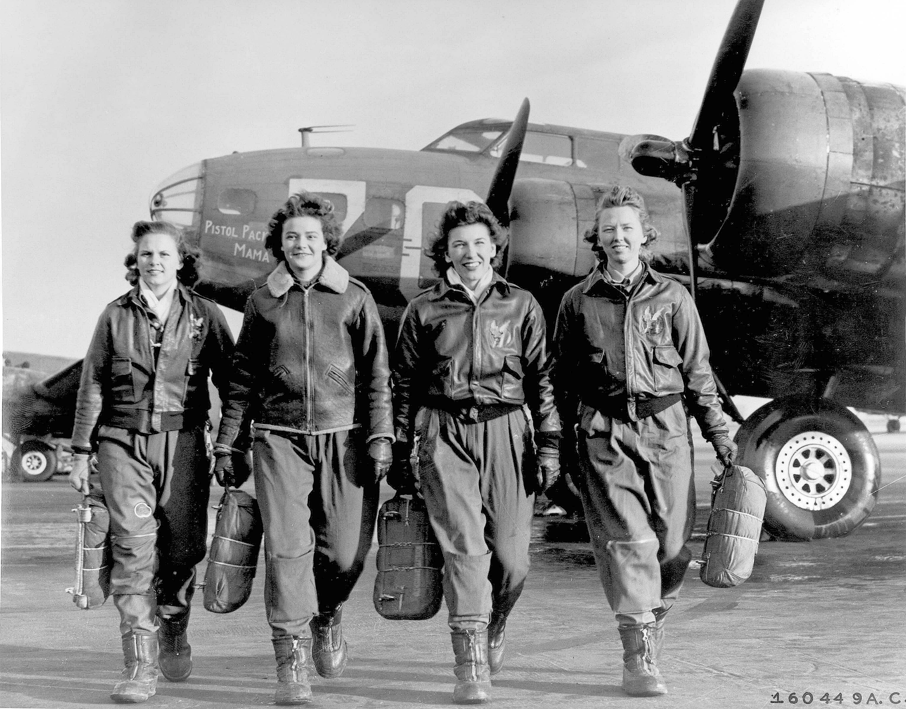 These four female pilots leaving their ship, Pistol Packin' Mama, at the four engine school at Lockbourne AAF, Ohio, are members of a group of Women Airforce Service Pilots (WASPS) who have been trained to ferry the B-17 Flying Fortresses. L to R are Frances Green, Margaret (Peg) Kirchner, Ann Waldner and Blanche Osborn.